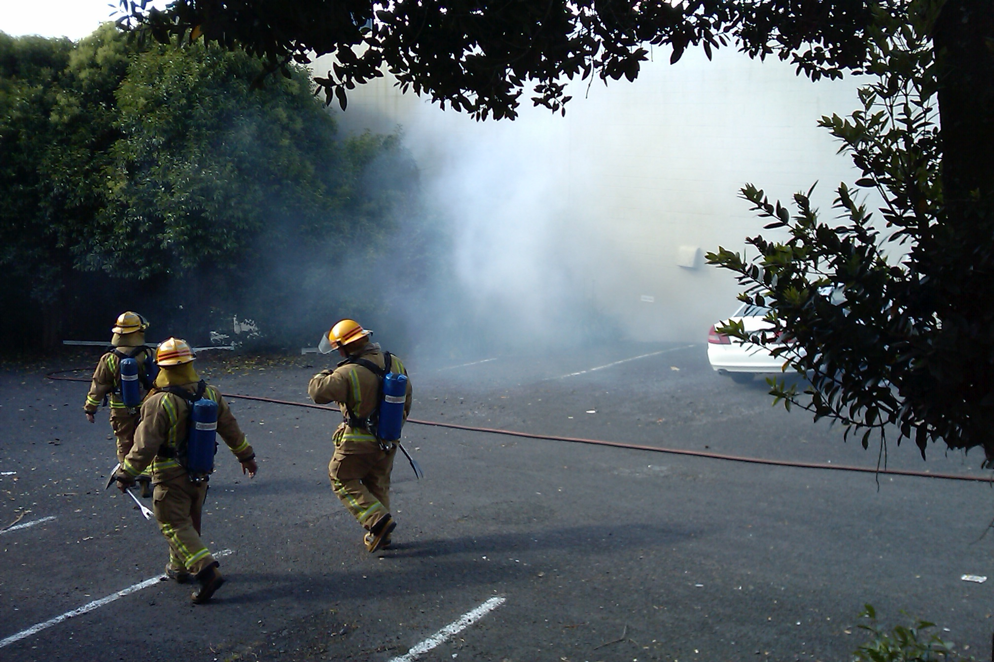 Fire in Auckland, New Zealand. Underneath an empty office building.